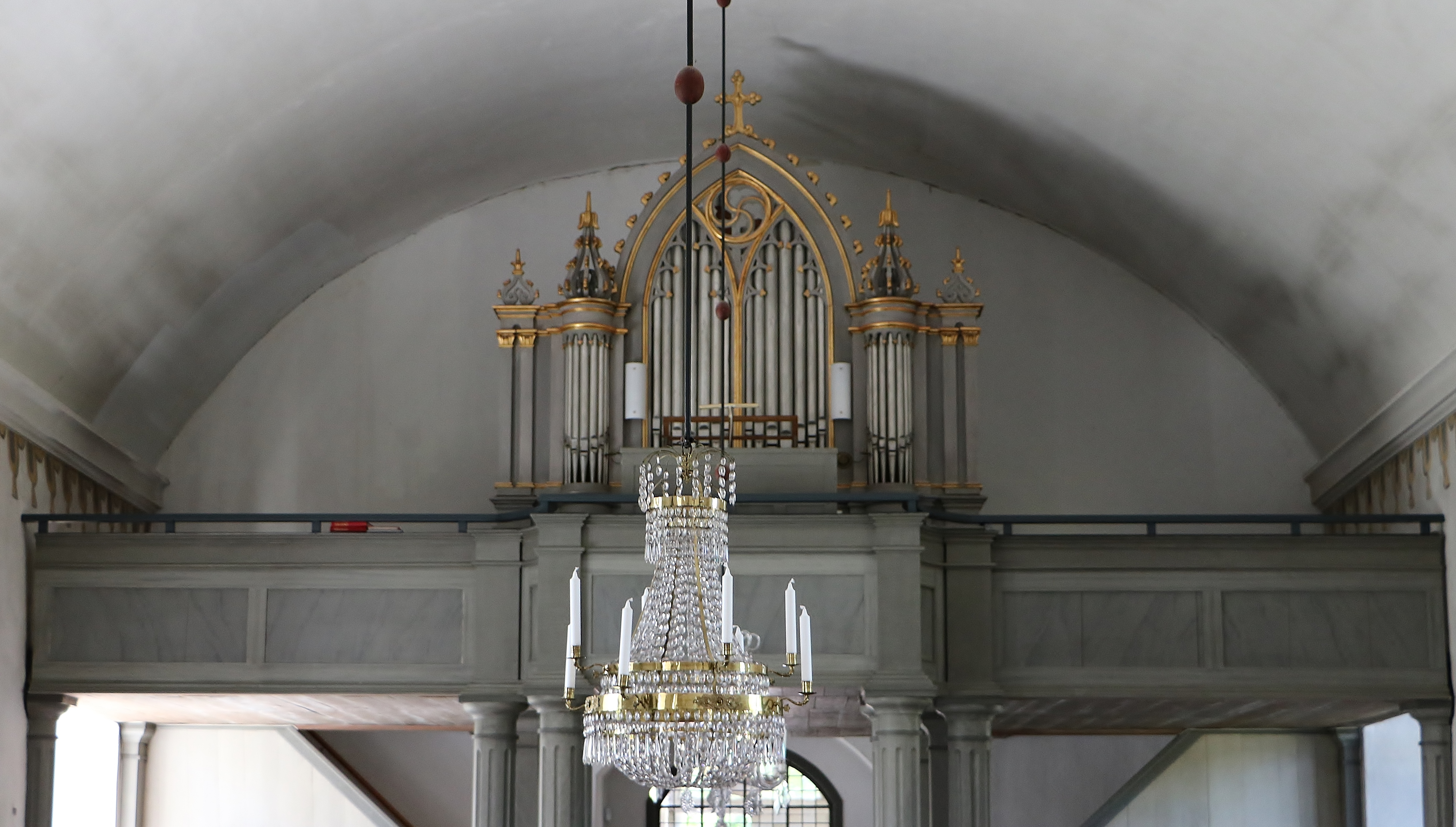 Förkärla Church.The organ